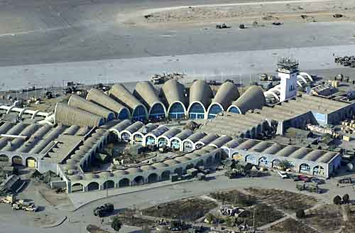 An aerial view of Kandahar International Airport in Afghanistan. Photo by Photographer's Mate 3rd Class Ted Banks, USN